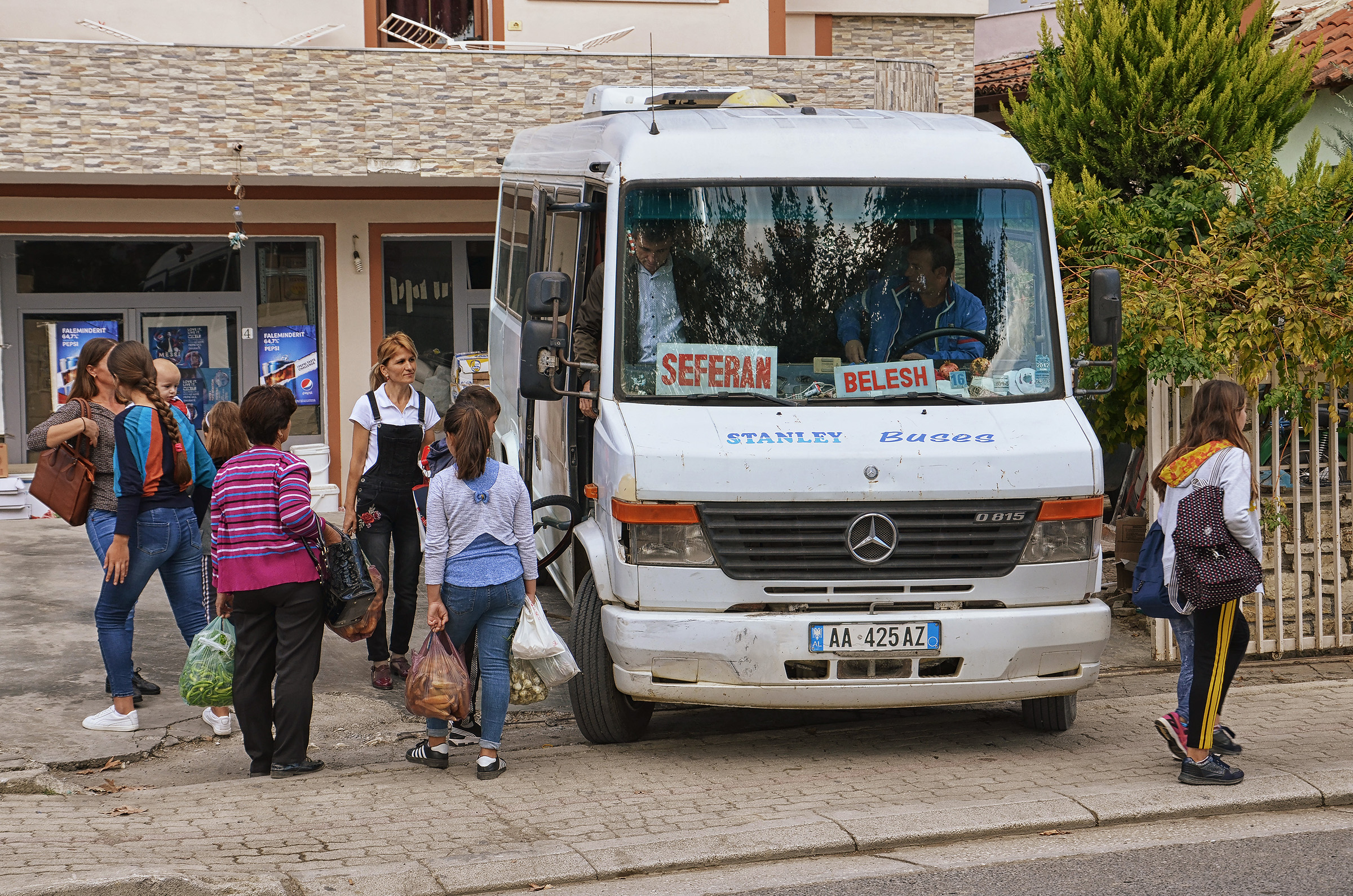 Minibus in Belsh, Albania waiting for passengers to Seferan